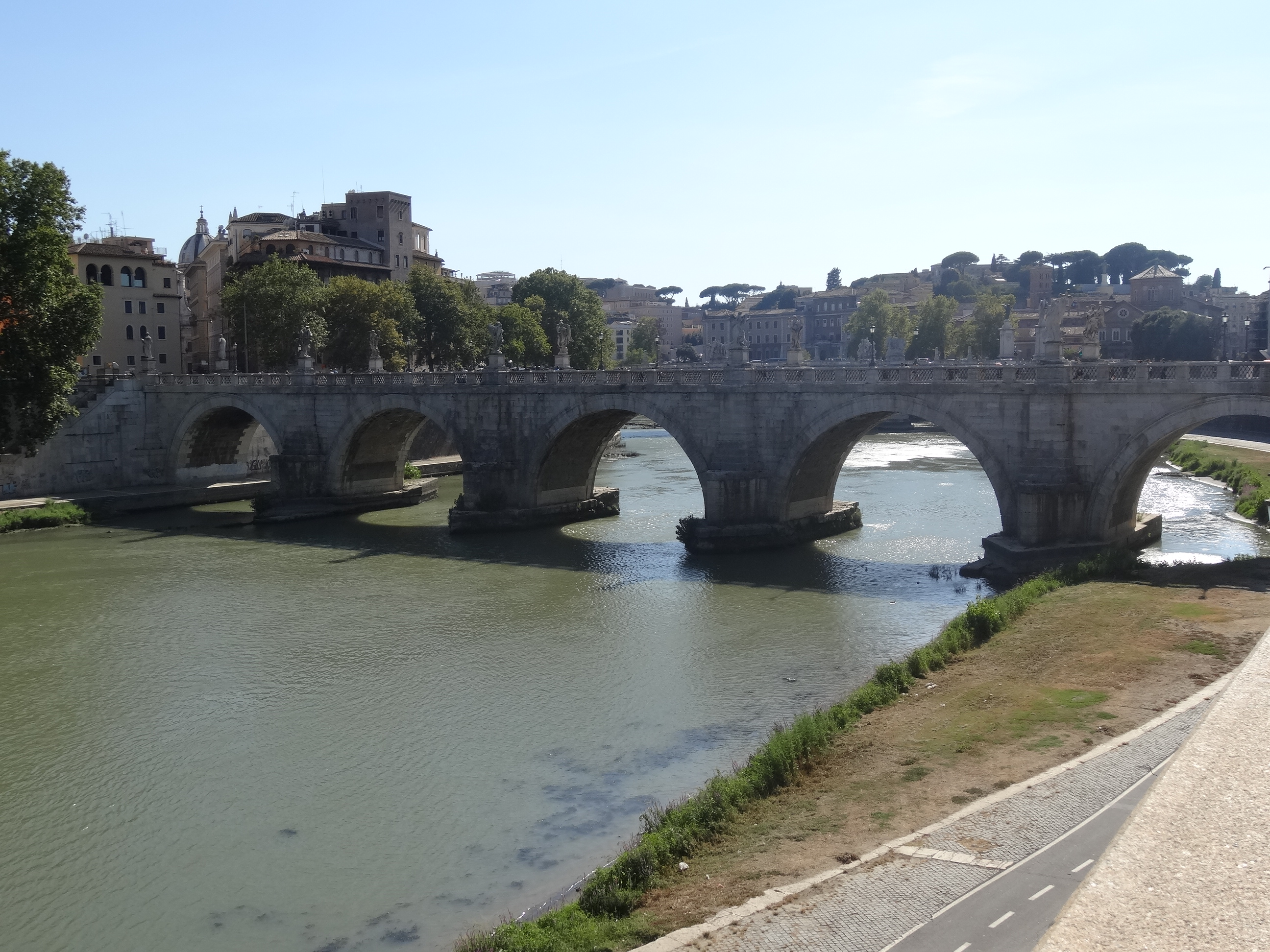 Ponte Sant'Angelo, Rome